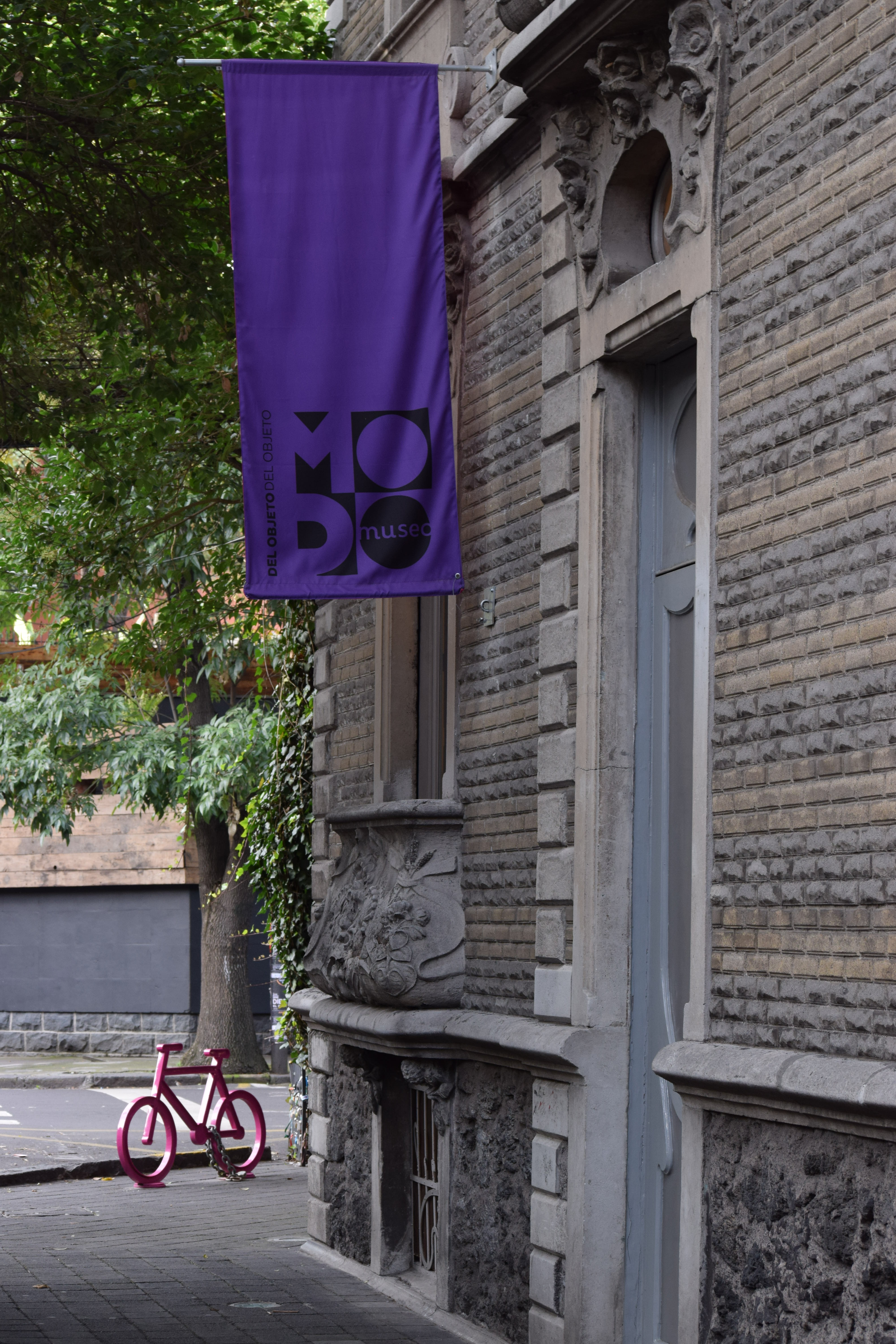 Flag hanged from the facade of the Museo del Objeto del Objeto (Museum of the Object("Purpose") of the Object) or MODO, located at Colonia Roma in Mexico City.